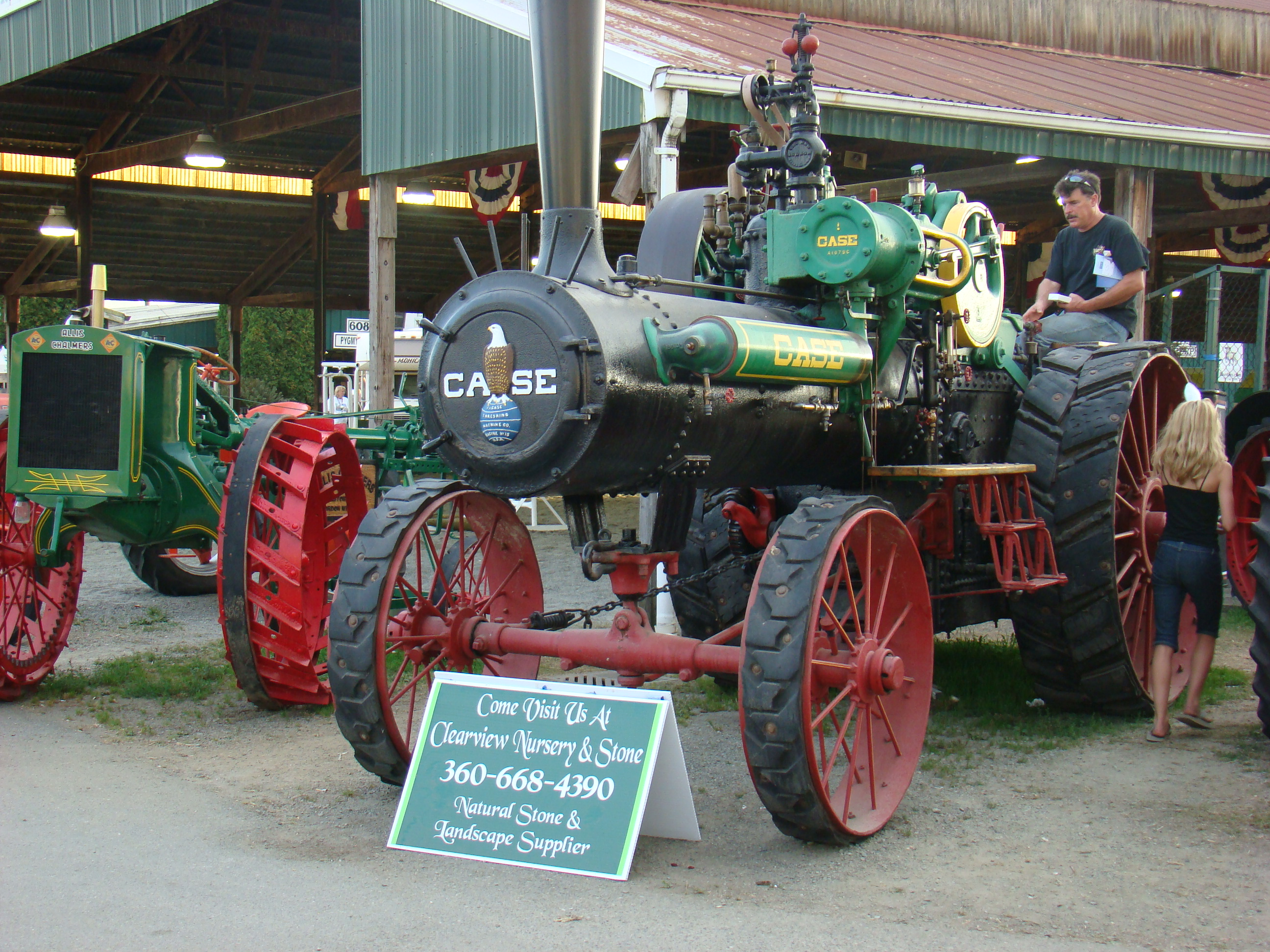 Preserved Case steam tractor